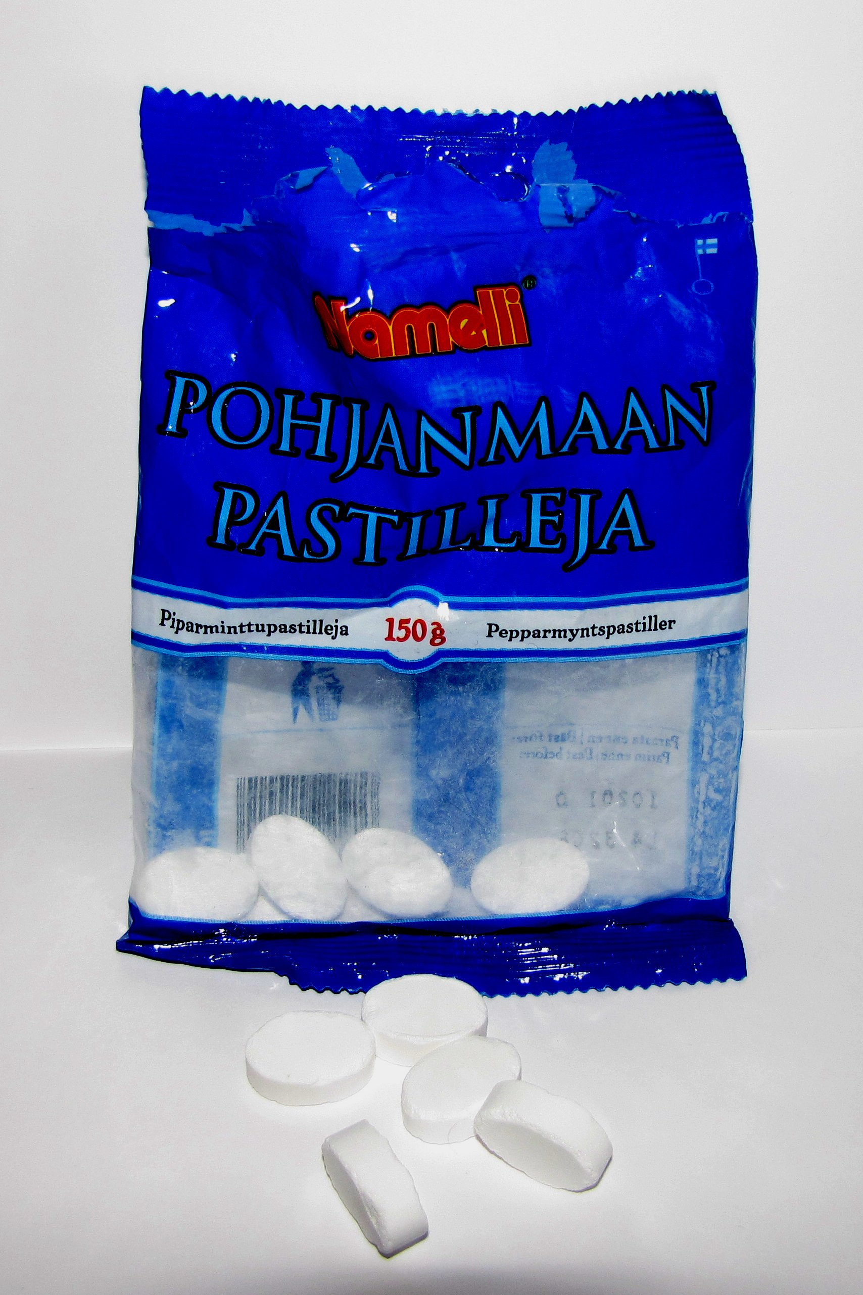 Finnish peppermint pastilles produced by Namelli.